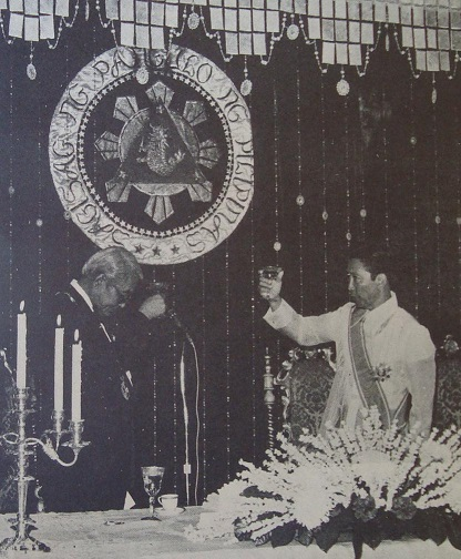 President Ferdinand Marcos hosted a State Dinner at Malacañang Palace for Prime Minister Kukrit Pramoj of the Kingdom of Thailand, July 21, 1975. (Photo courtesy of Philippine Diplomatic visit website.)